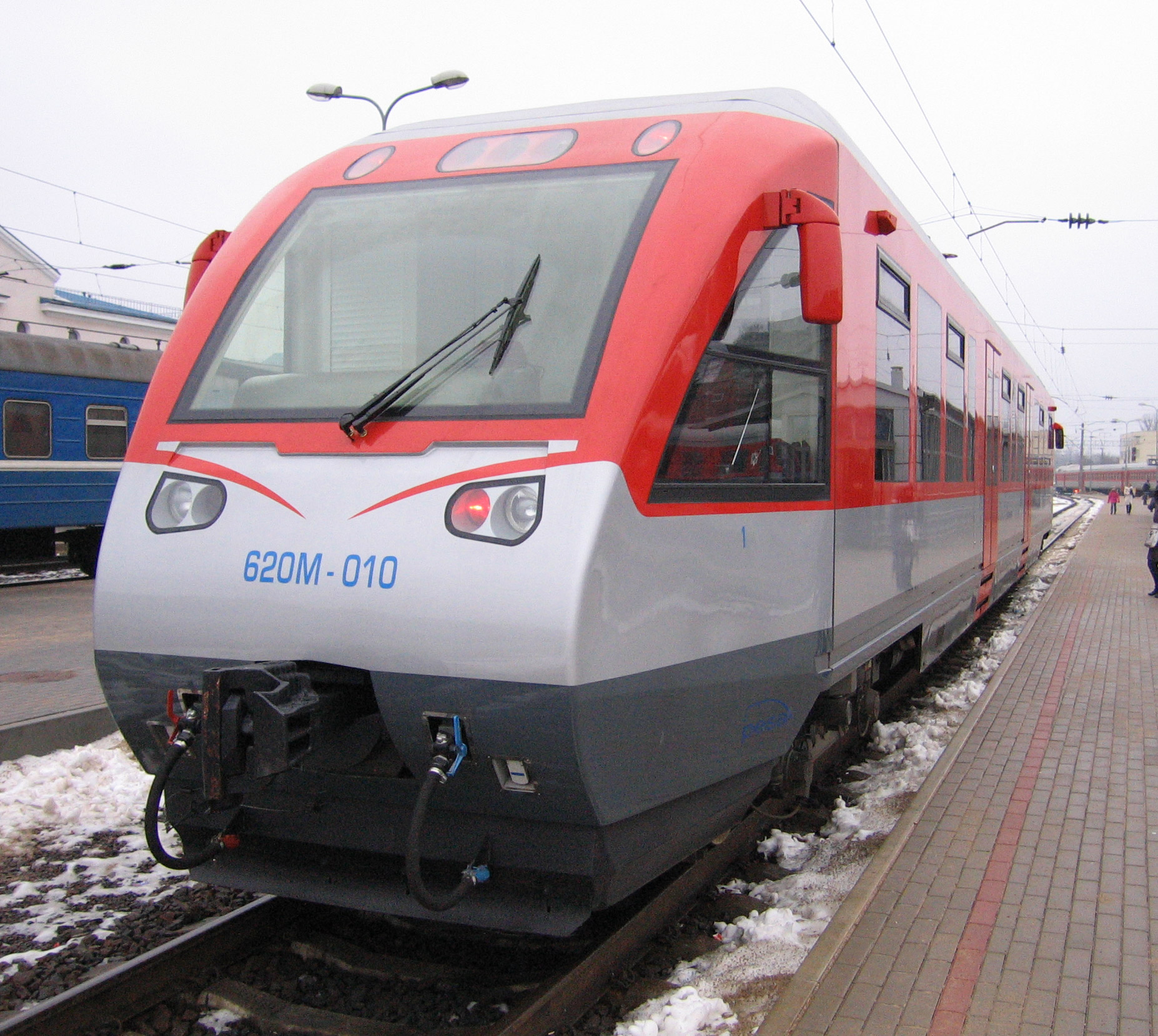 Railcar PESA 620M in Vilnius train station 2009.